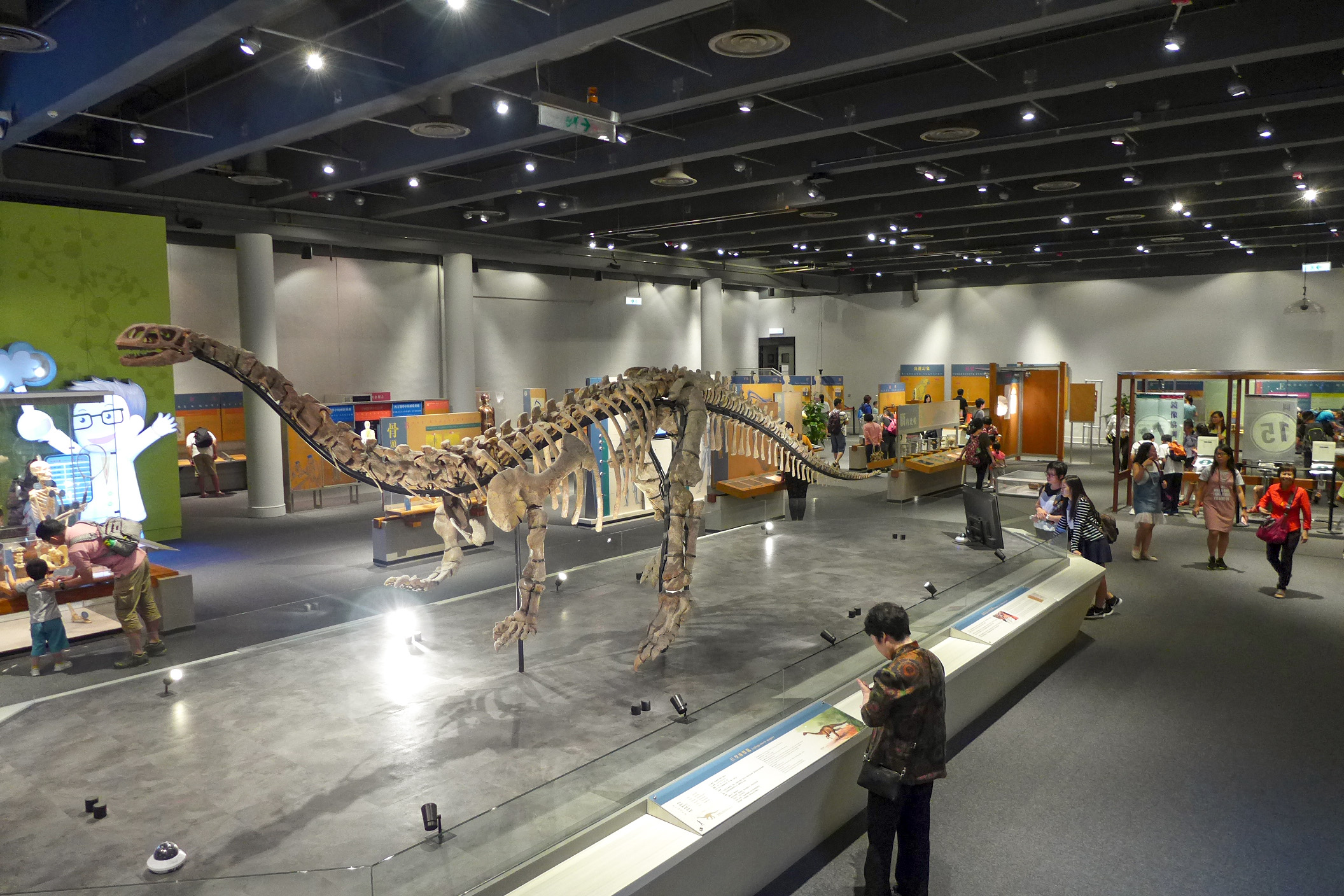 Hong Kong Science Museum Life Science